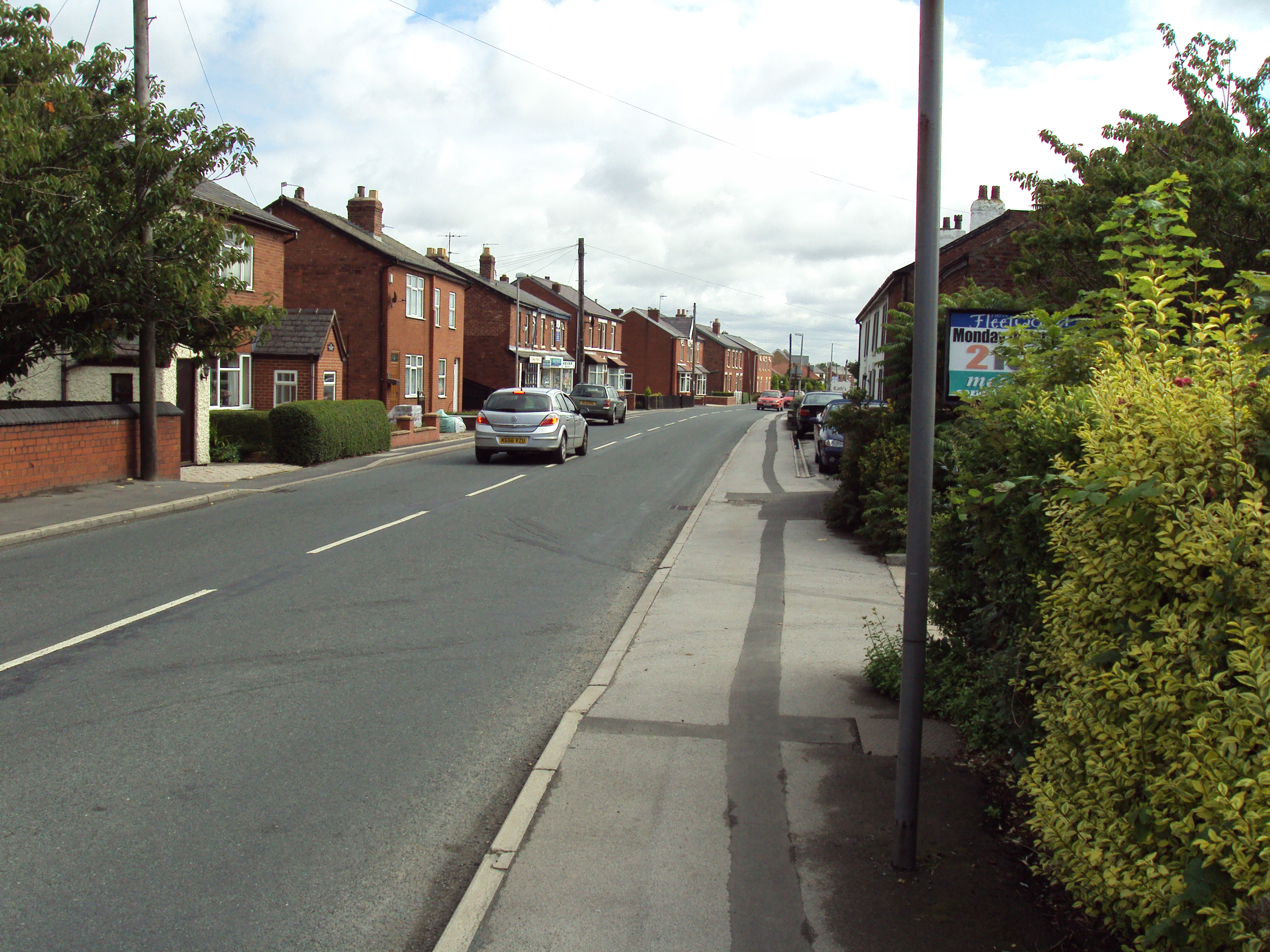 Church Road, Banks, Lancashire, England.